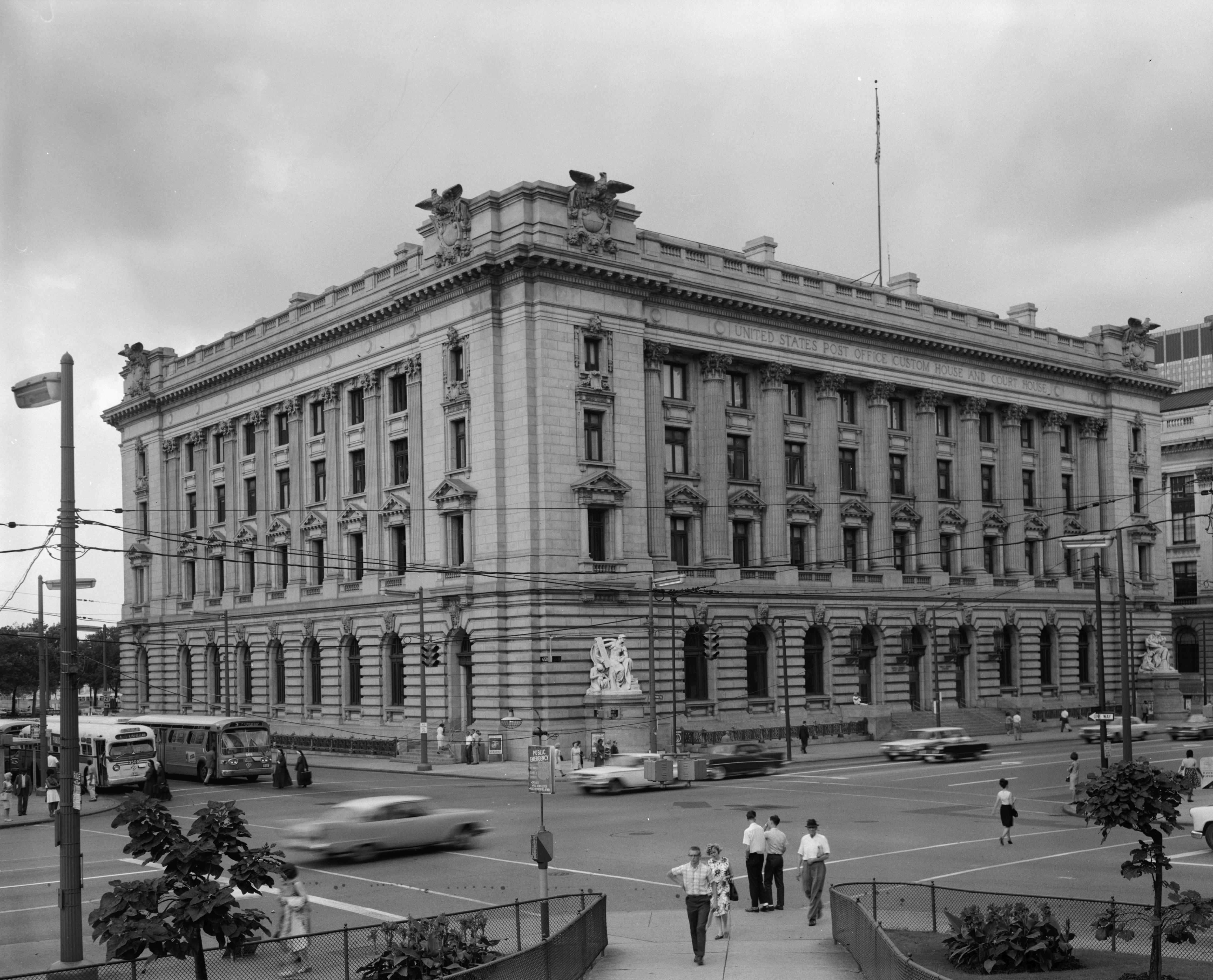 Southern and western sides of the Old Federal Building and Post Office, located on Public Square in downtown Cleveland, Ohio, United States. Built in 1910, it is listed on the National Register of Historic Places.